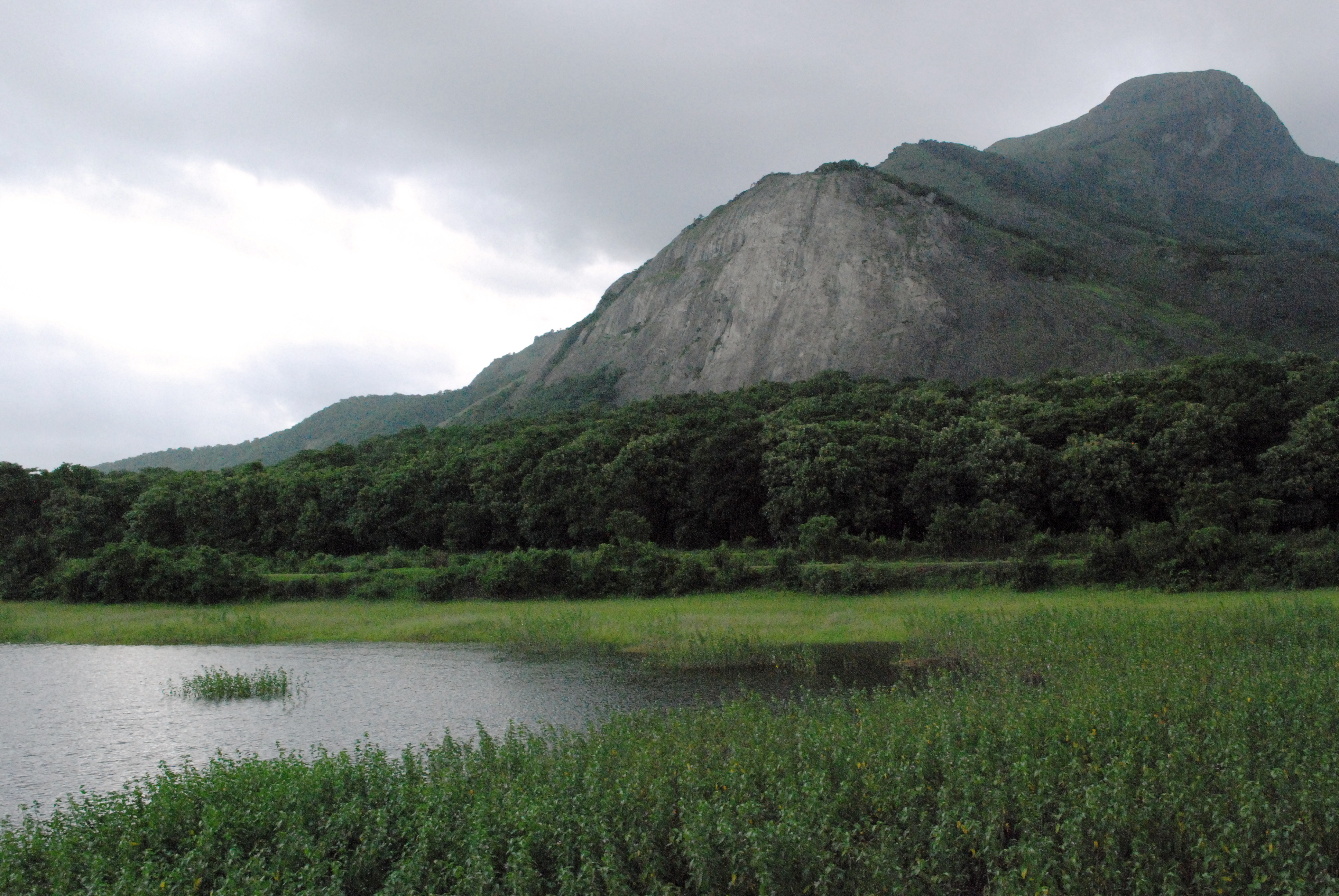 Imagine a narrow stretch of coastal land pampered by the Arabian sea on one side and guarded by the Western Guards on the other.